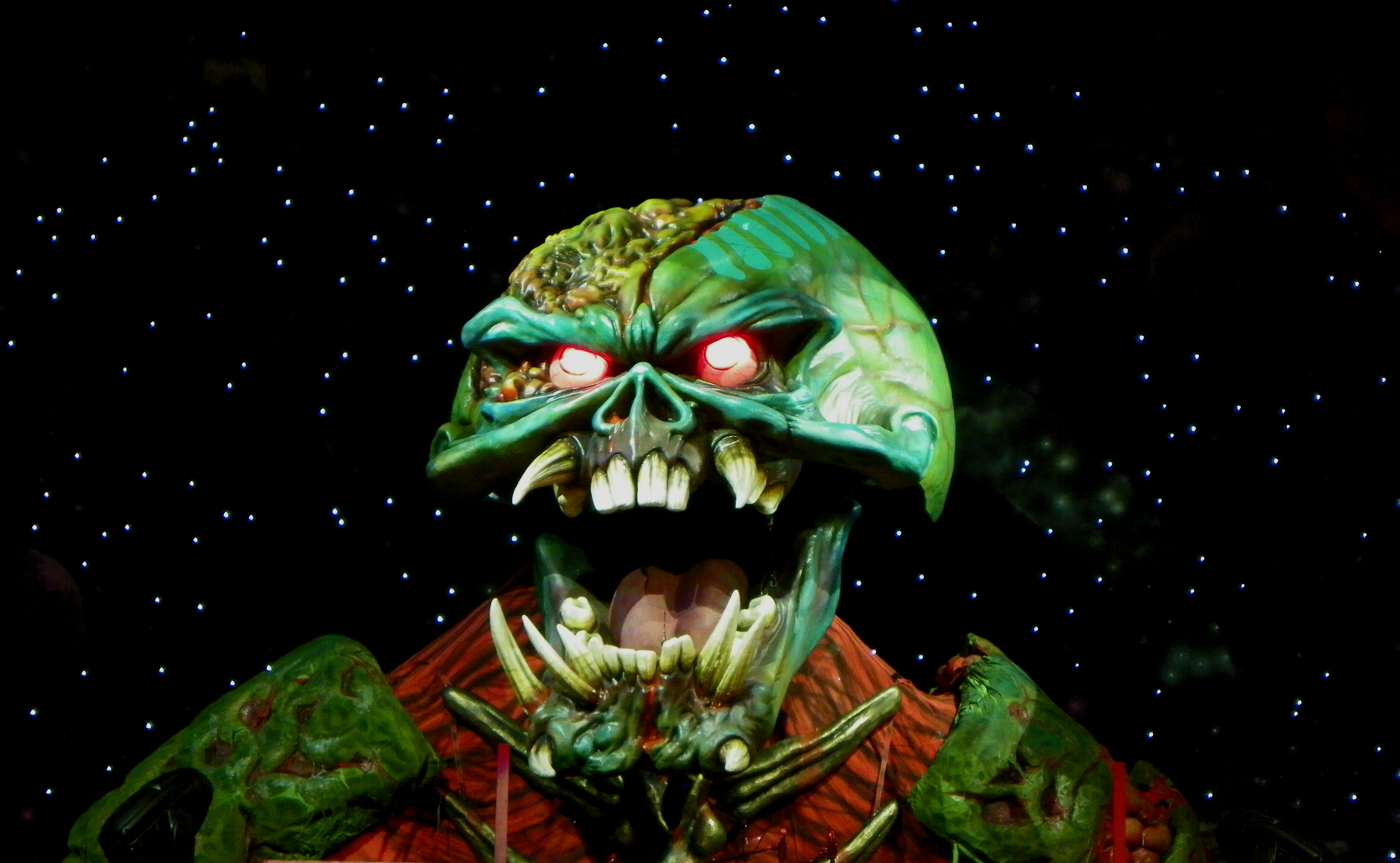 Iron Maiden´s mascot Eddie in Newcastle, July 23rd 2011.